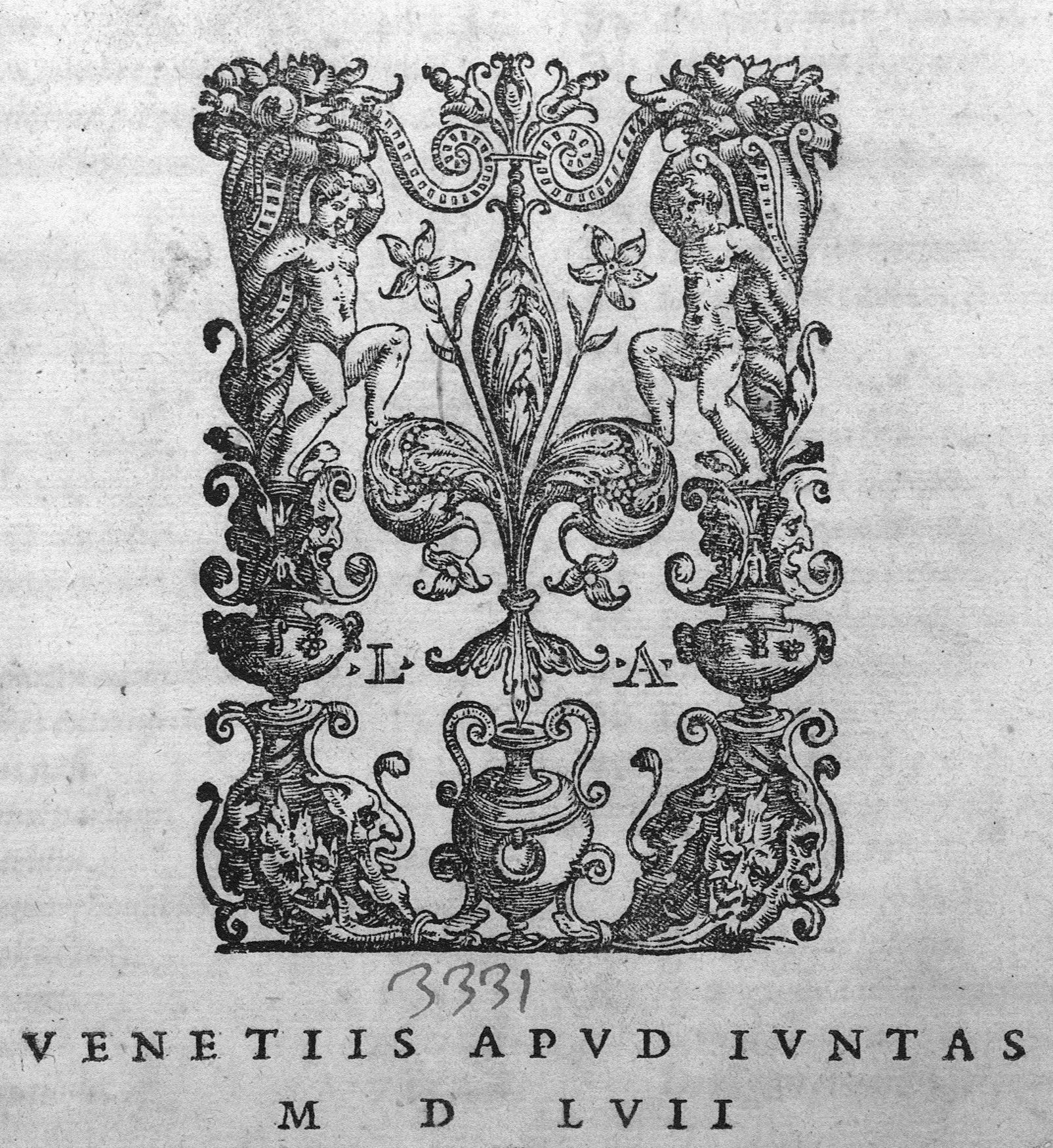 Printer's mark of the Giunti family printing business in Venice, from the Practica Ioannis Arculani Veronensis… of Giovanni Arcolano, Venetiis: Apud Iuntas, 1557